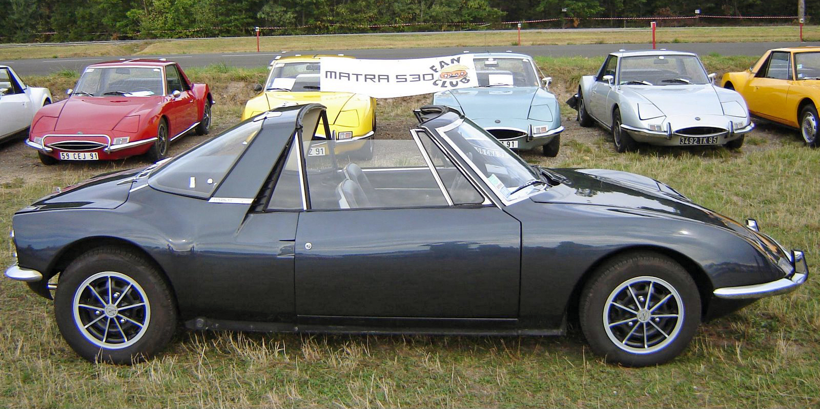 Matra MS 530 in front of a rainbow of 530s at the Autodrome de Linas-Montlhéry Montlhéry 2009.